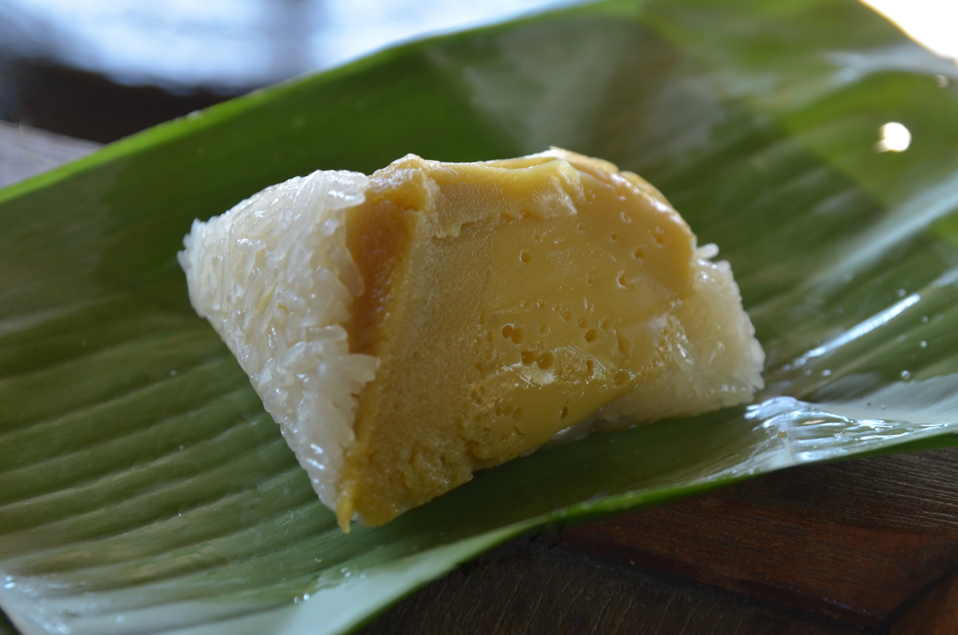 Khao niao sangkhaya (Thai script: ข้าวเหนียวสังขยา): sticky rice with egg and coconut custard